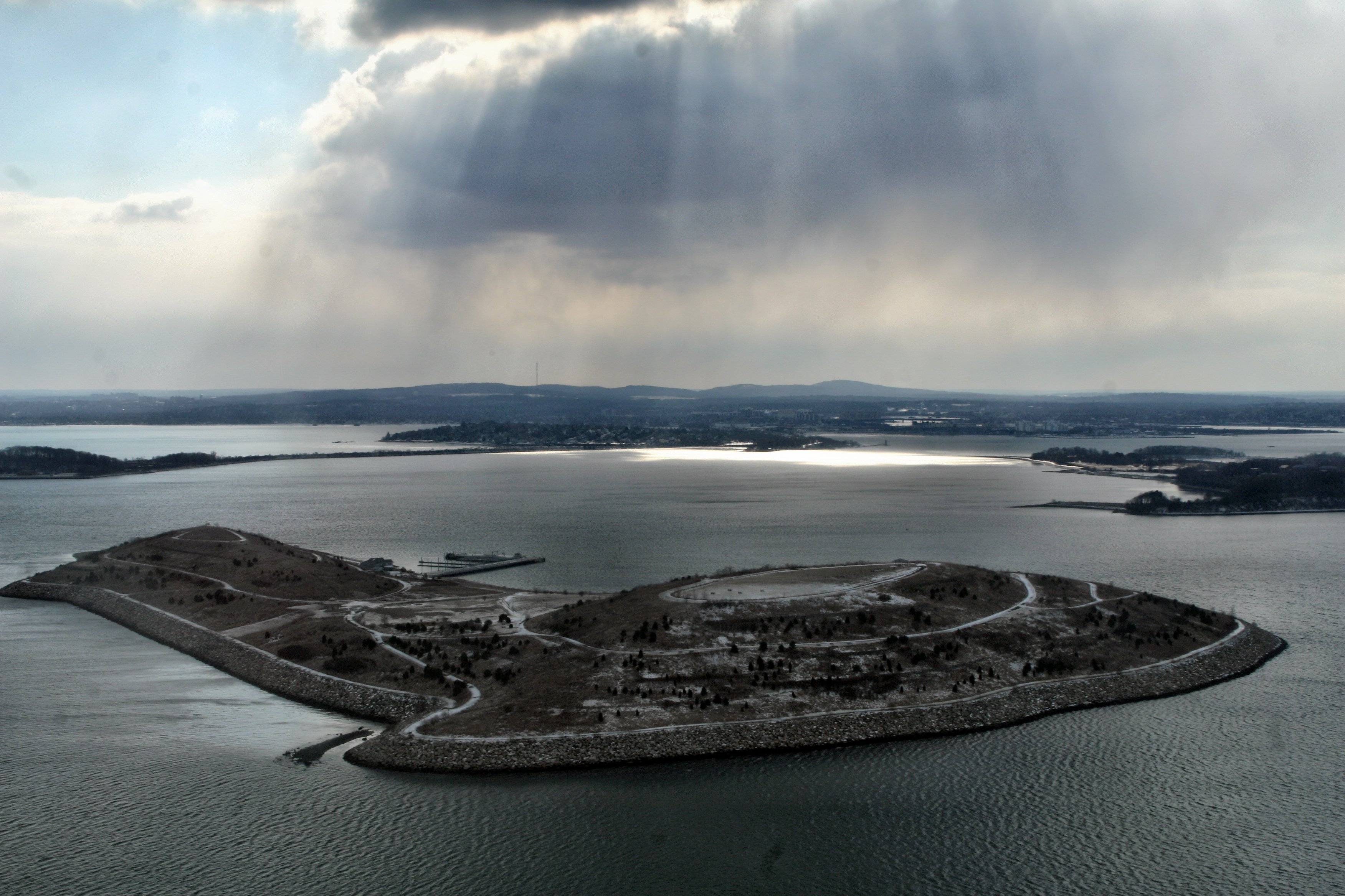 Spectacle Island (Boston Harbor), a drumlin topped by landfill.